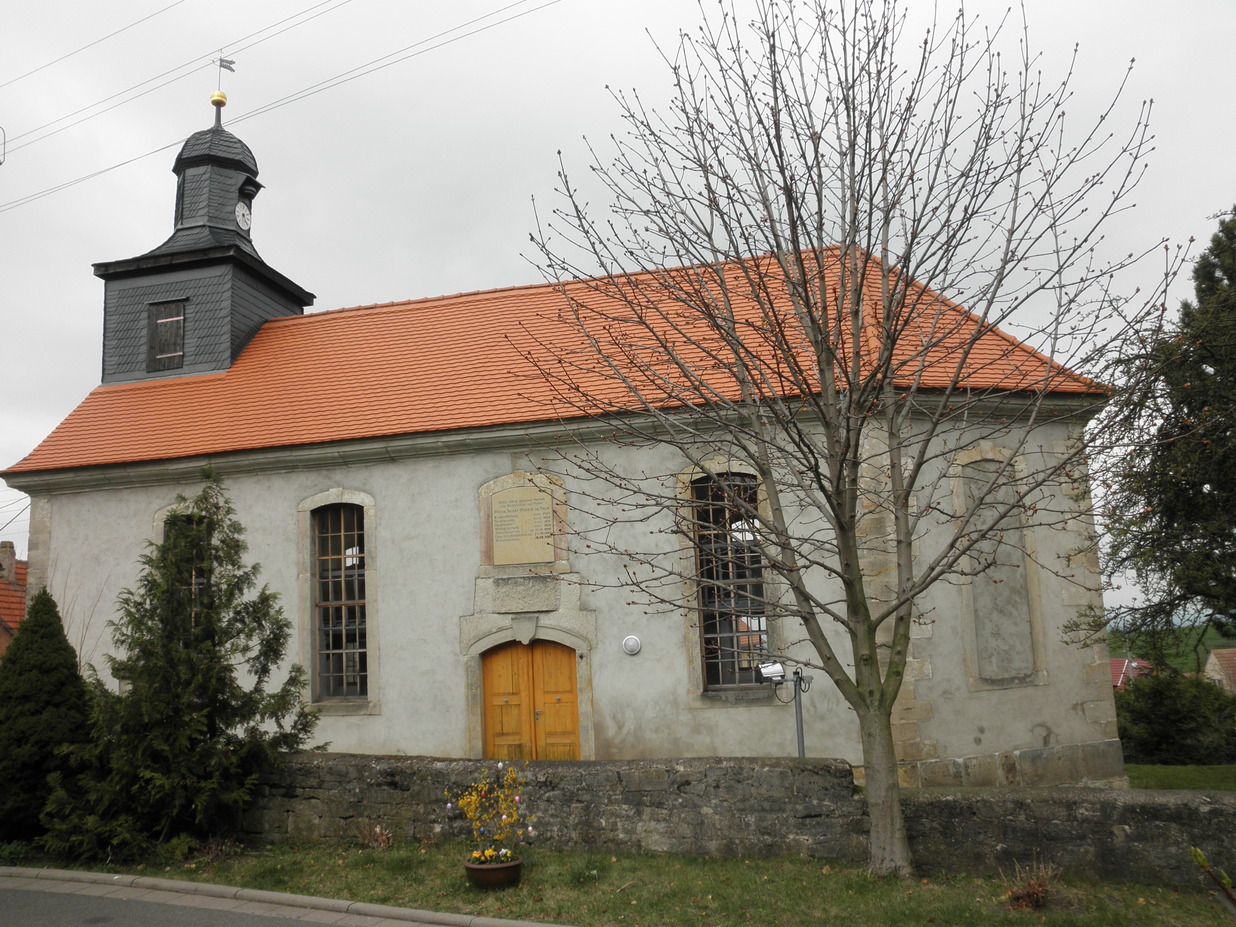 Church in Hayn (Mönchenholzhausen) in Thuringia